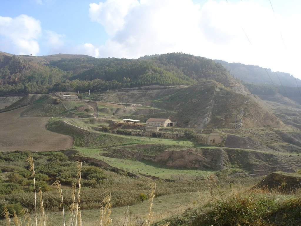 miniera